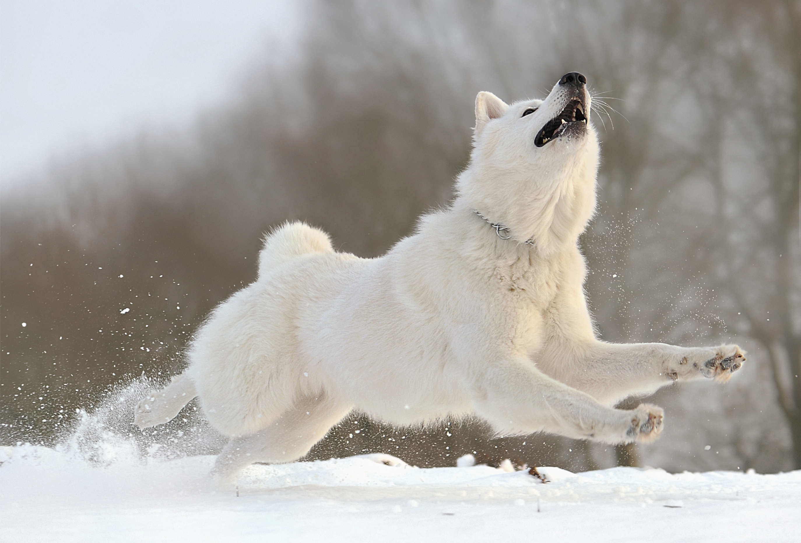 Berger Blanc Suisse